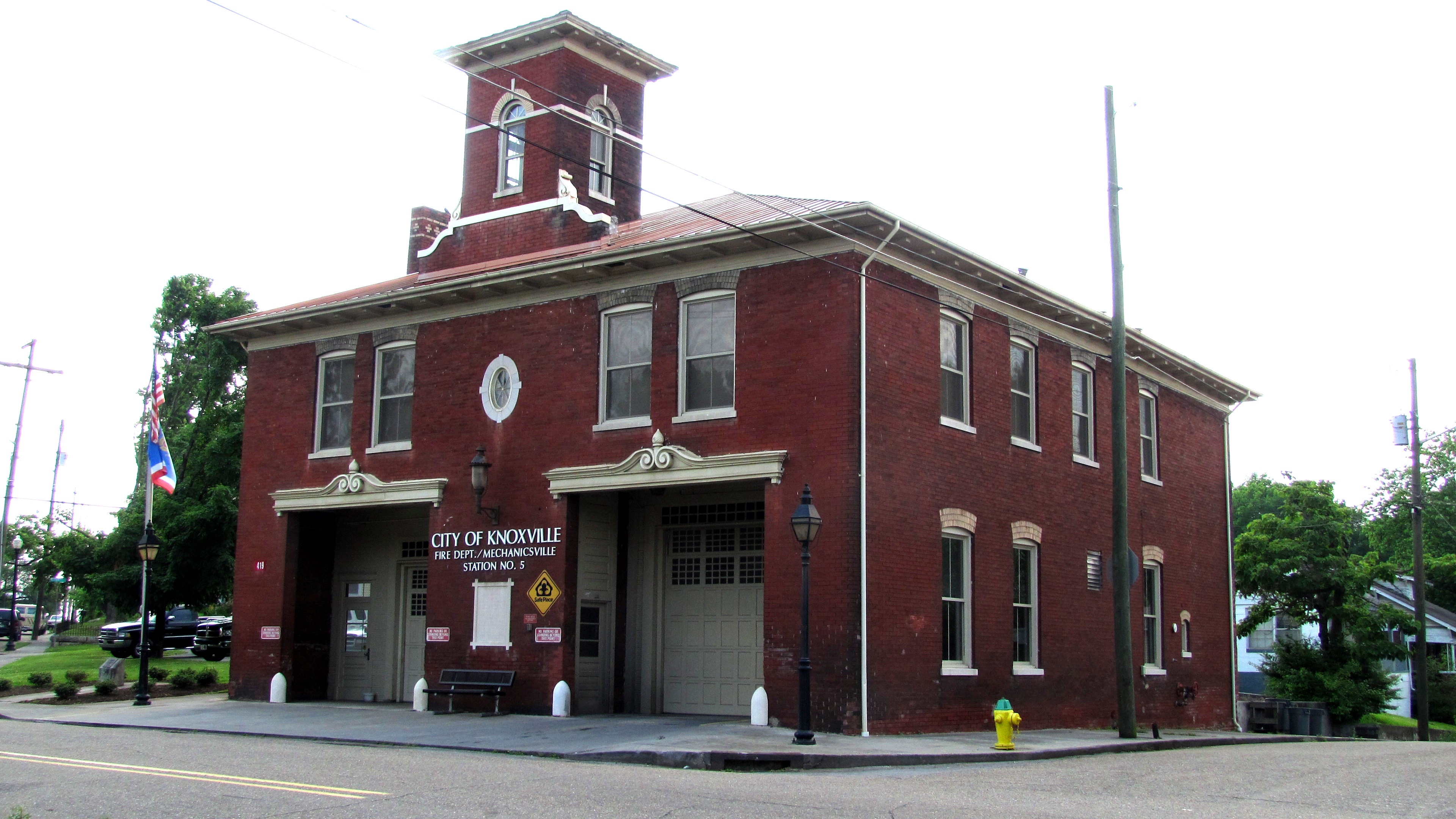 The NRHP-listed Fire Station Number 5, located in the Mechanicsville section of Knoxville, Tennessee, USA.